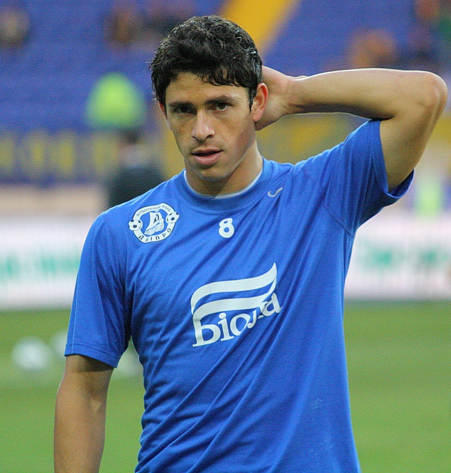 Giuliano Victor de Paula